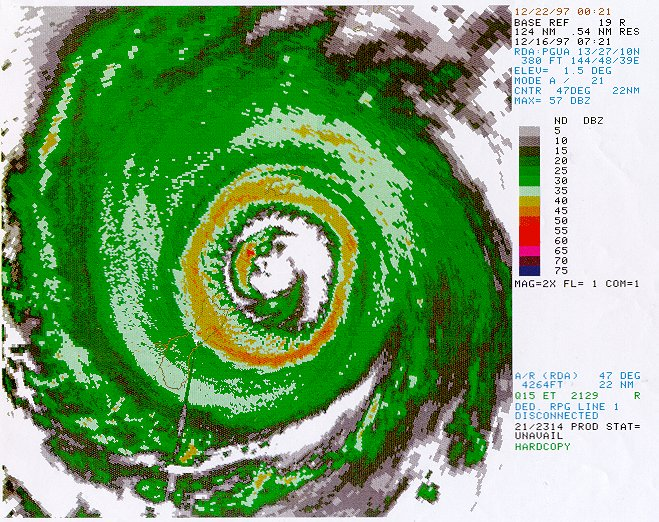 NEXRAD imagery of Typhoon Paka early on 16 December, 1997.